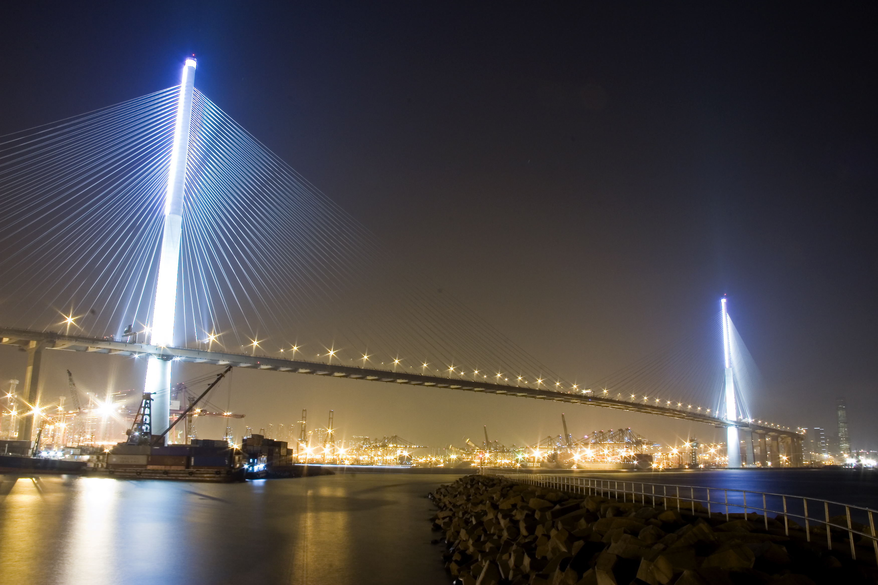 The Stonecutters Bridge over the Rambler Channel in Hong Kong